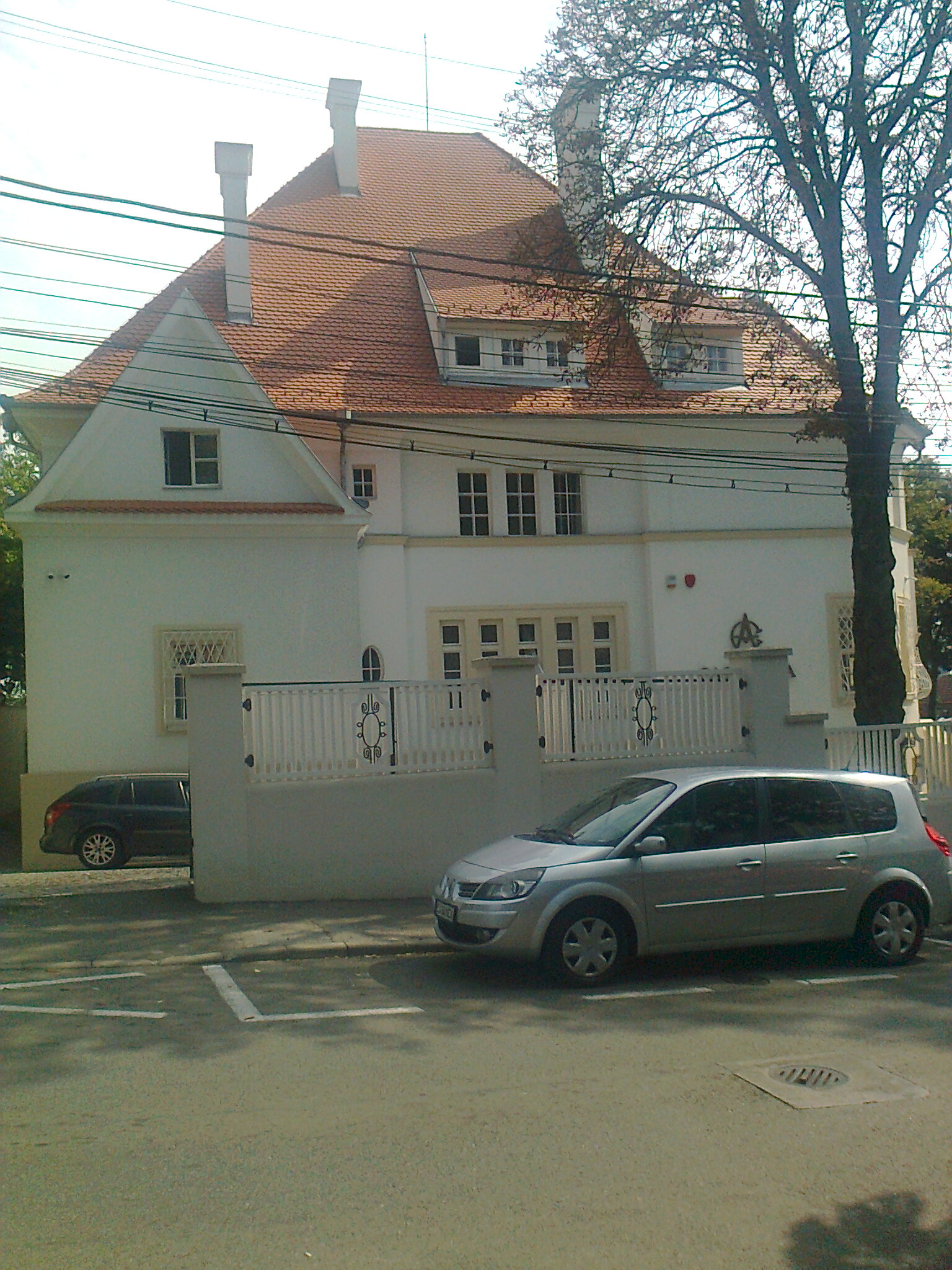 The so-called White House in Cluj-Napoca